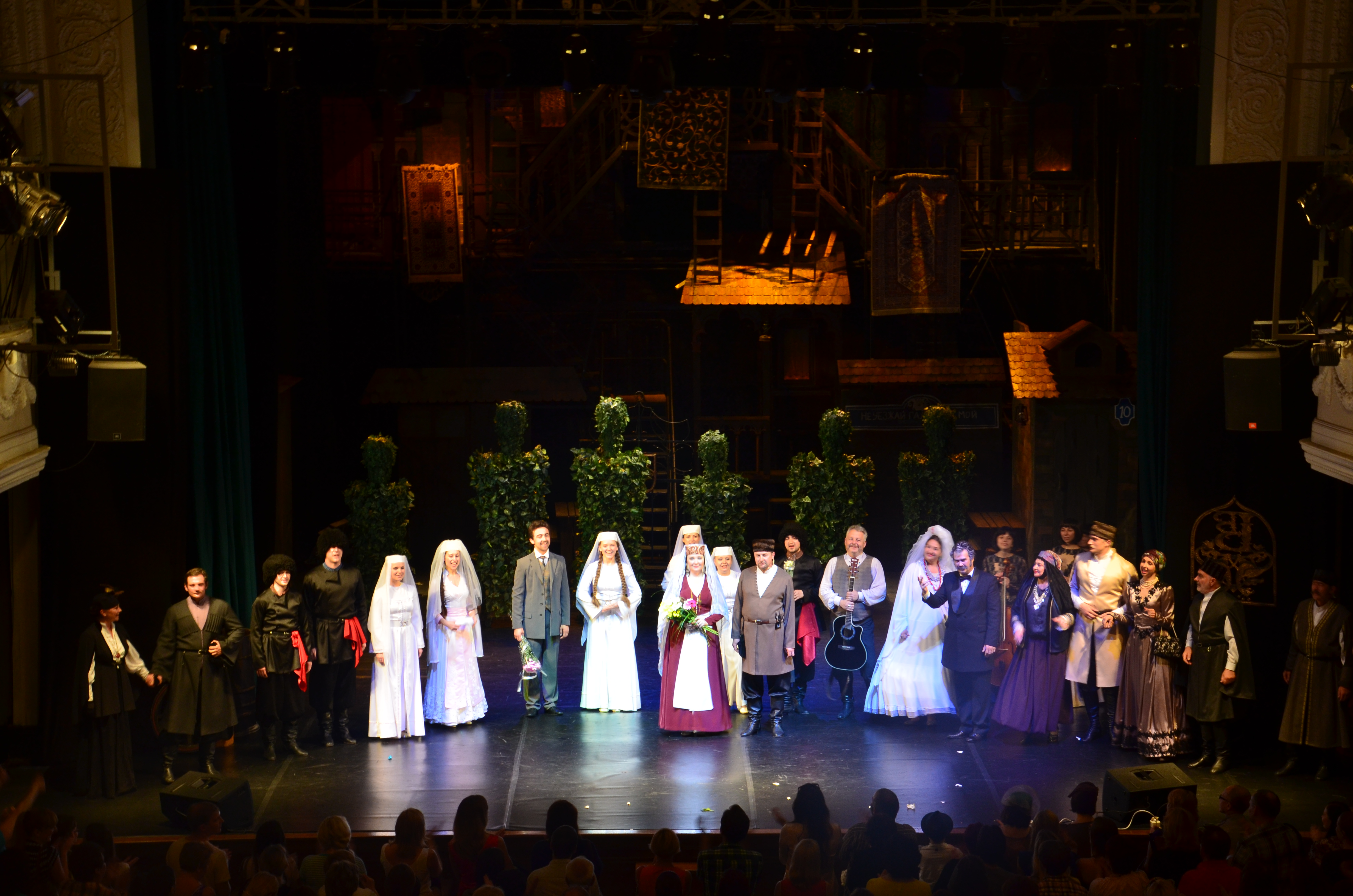 Play "Khanuma" in Maxim Gorky National Academic Drama Theatre in Minsk